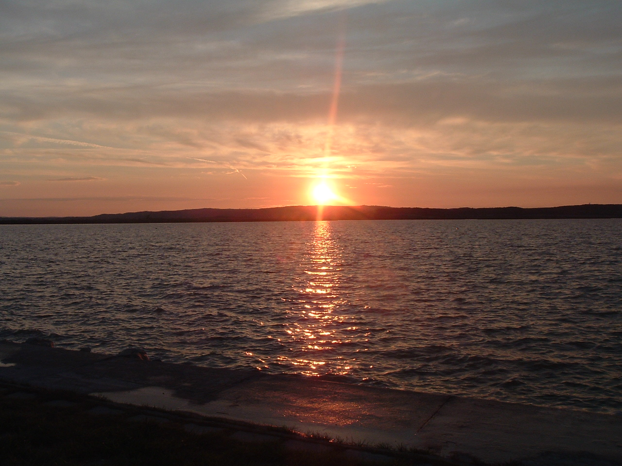 Sunset on the Lake Velencei, Agárd (Gárdony).